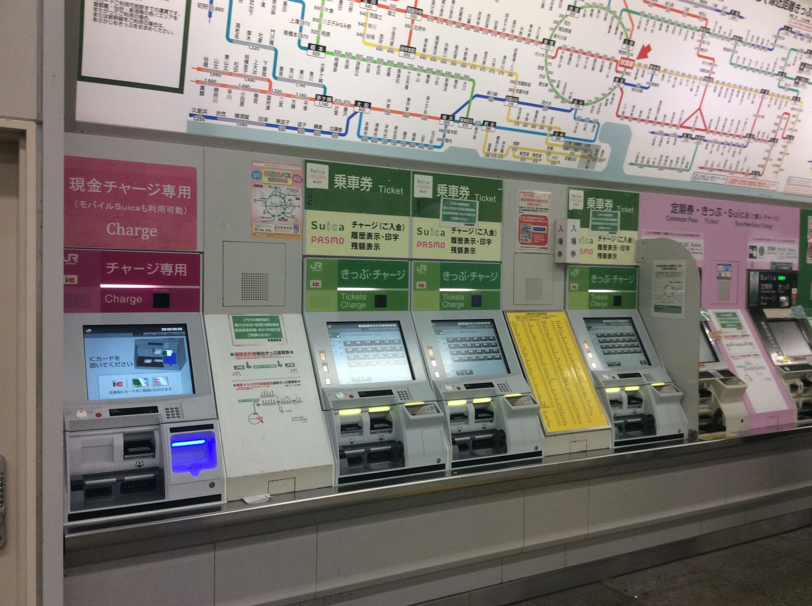 New ticket machines at JR Akihabara Station in Tokyo